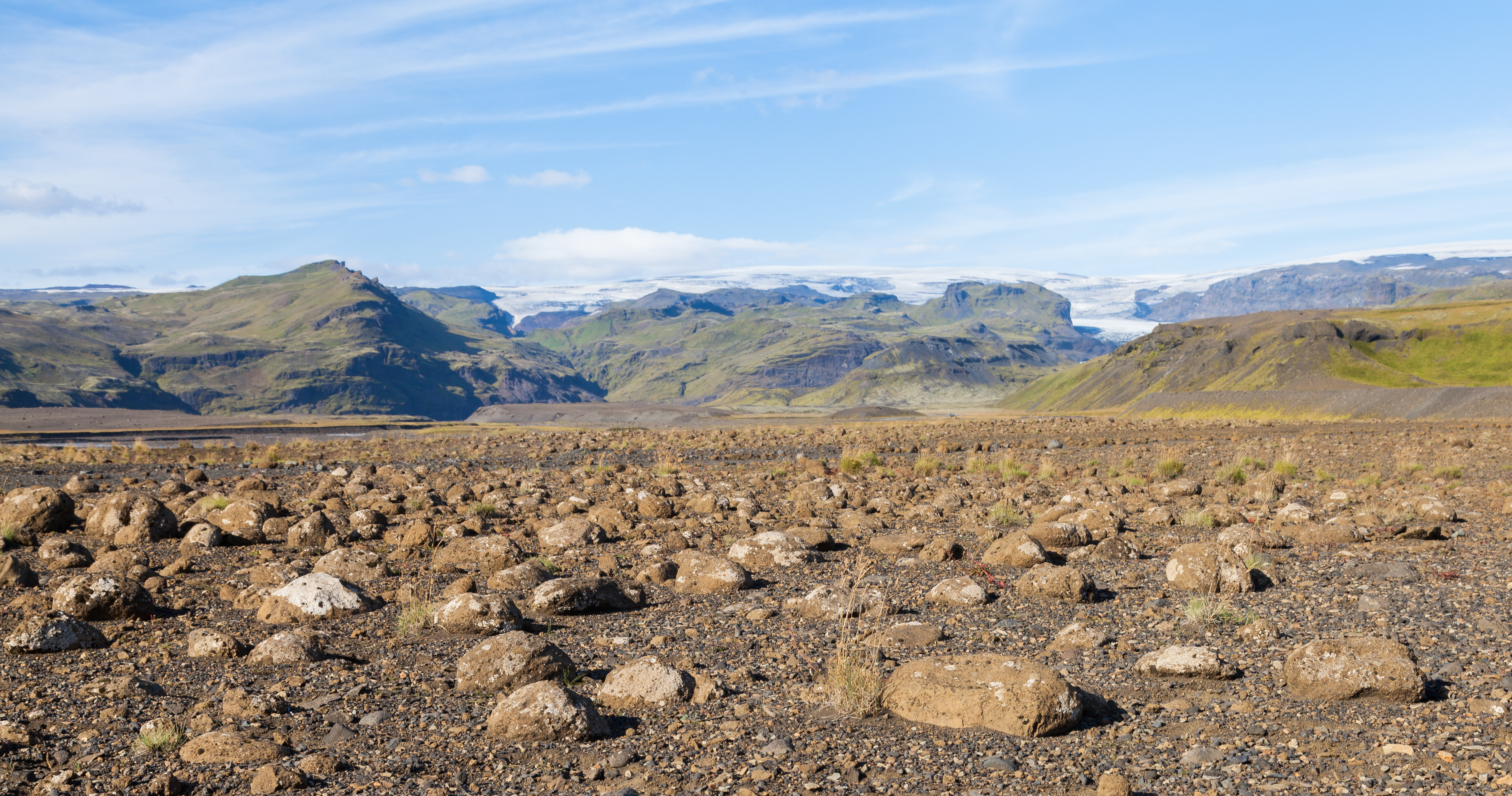 Katla volcano, Heimaey, Suðurland, Iceland